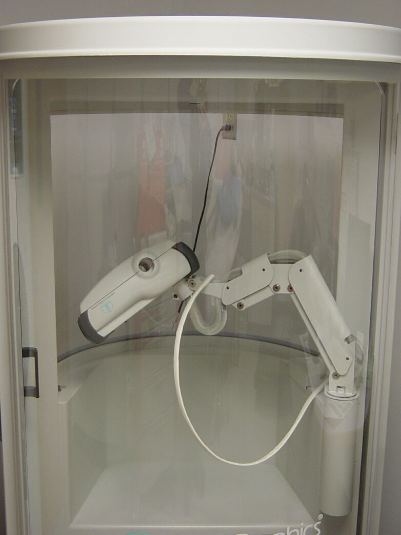 Body box Pulmonary Function Empty